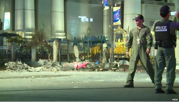 Thai police investigating the bomb blast in central Bangkok.